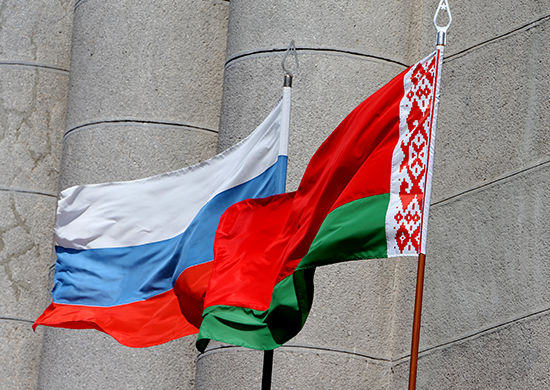 В Минске состоялась встреча Министра обороны России с Президентом Белоруссии